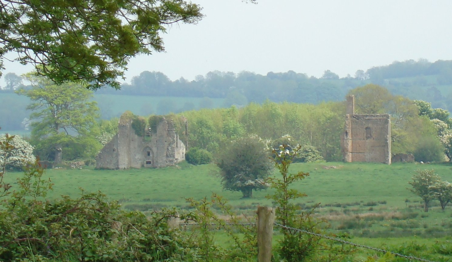 Photograph of the remains of Tristernagh Abbey, Co Westmeath, Republic of Ireland